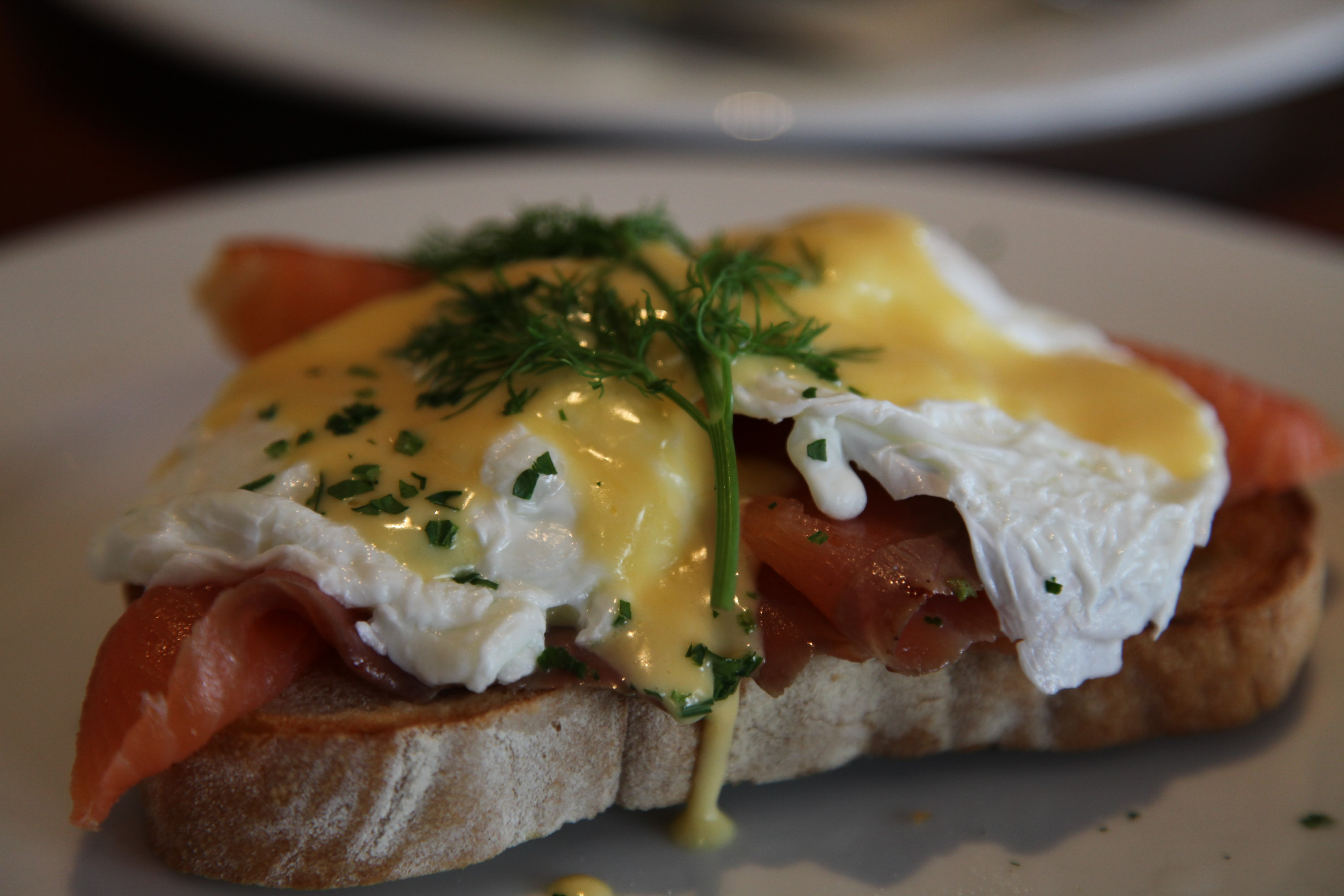 Eggs Benedict with smoked salmon from Mocha Jo's in Glen Waverley, Victoria, Australia.